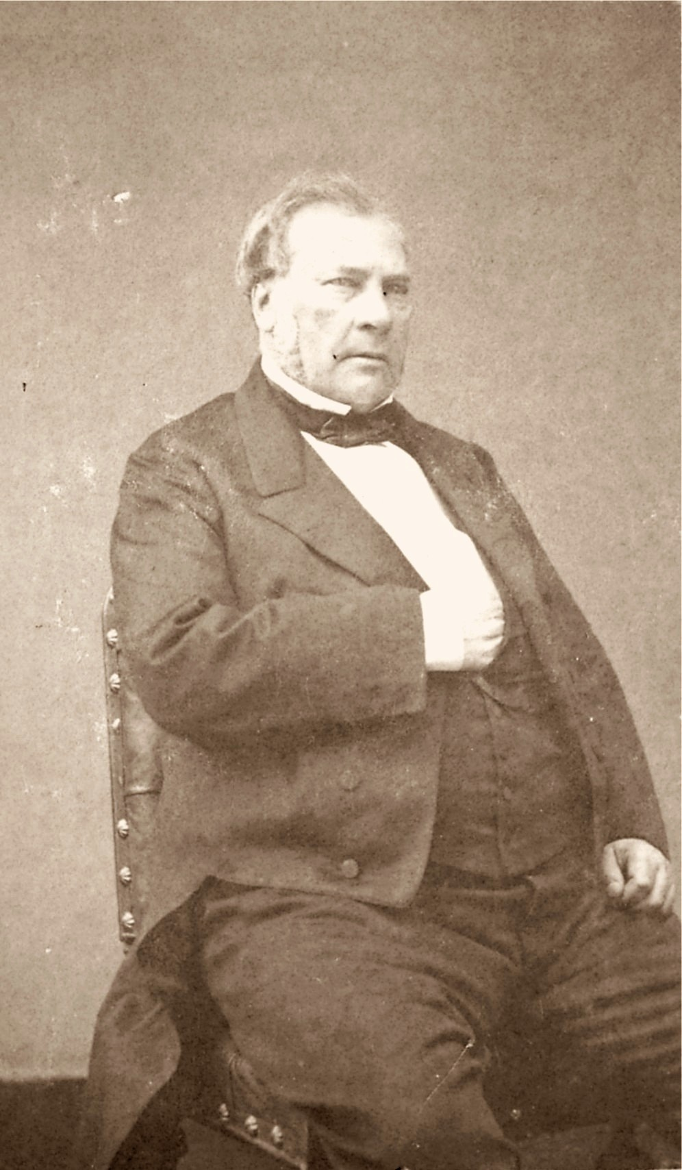 Jean-Baptiste Boussingault, Chemist from France